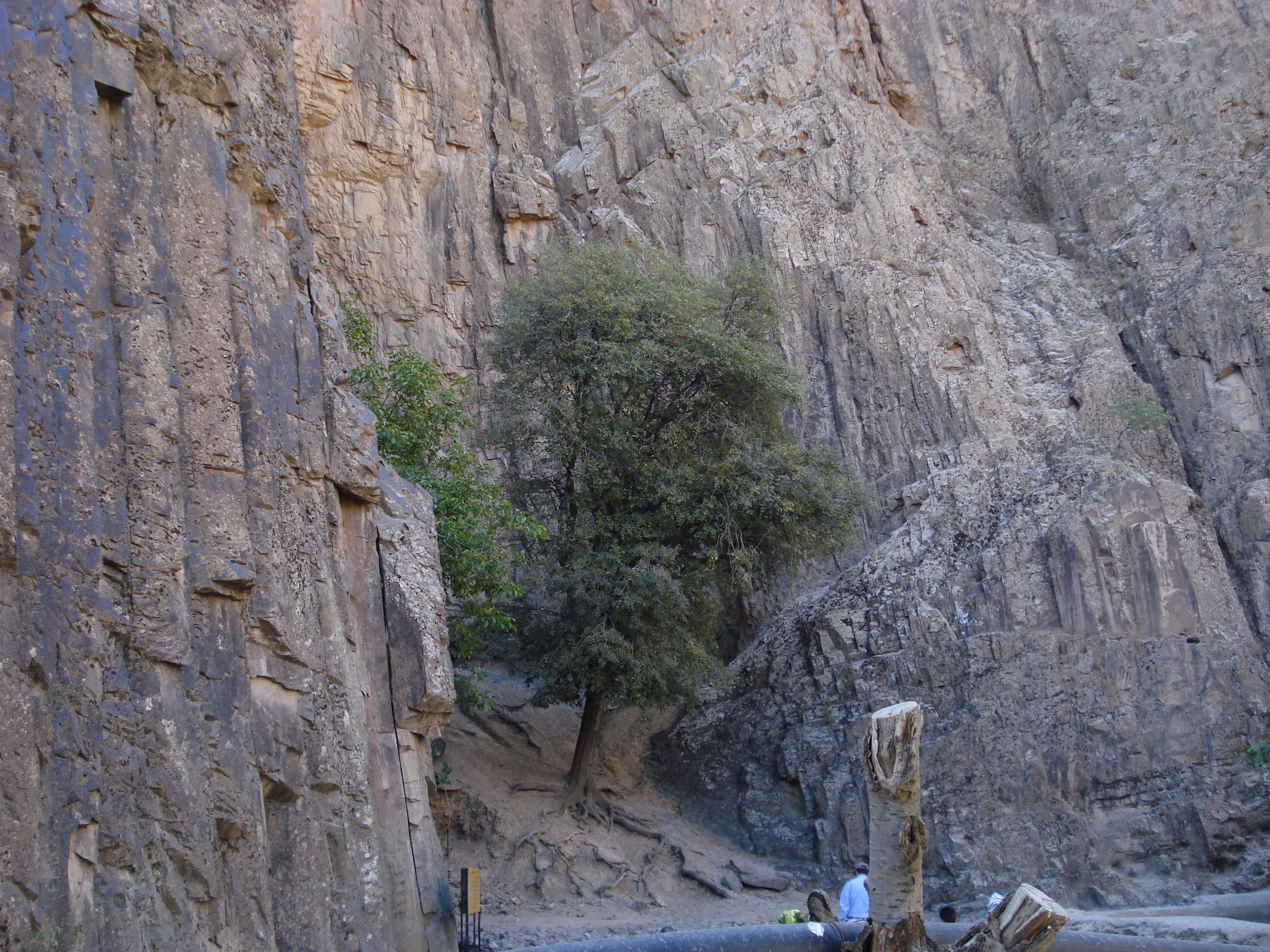 a holy tree in ancient time.entrance of Darb e Soufeh Zibad درخت مقدس تاقوک در ابتدای ورودی درب صوفه پیر زیبد گناباد